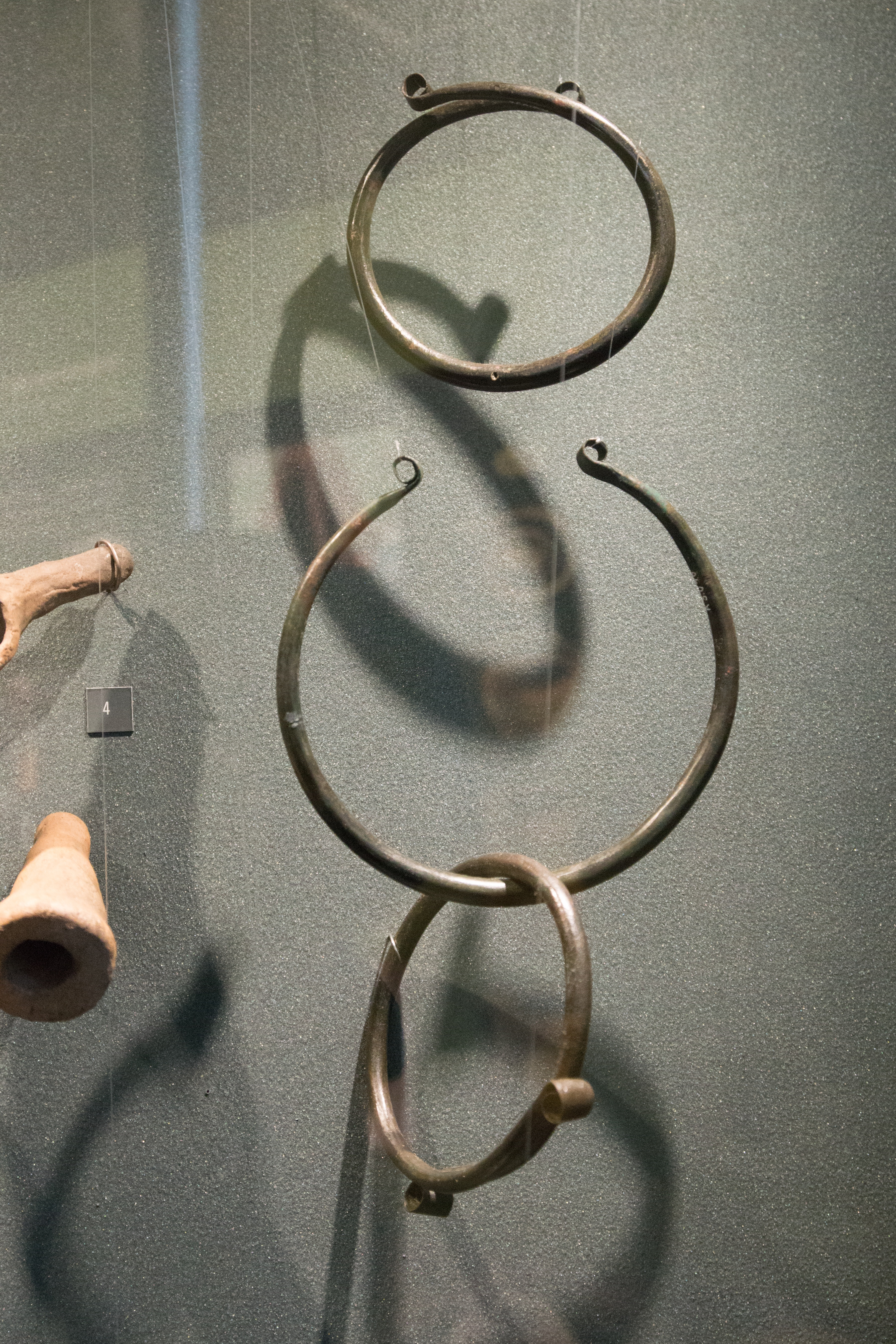 The bronze ingots, bracelets and fragments found in an Early Bronze Age Únětice culture vessel at Praha Bubeneč. The City of Prague Museum.